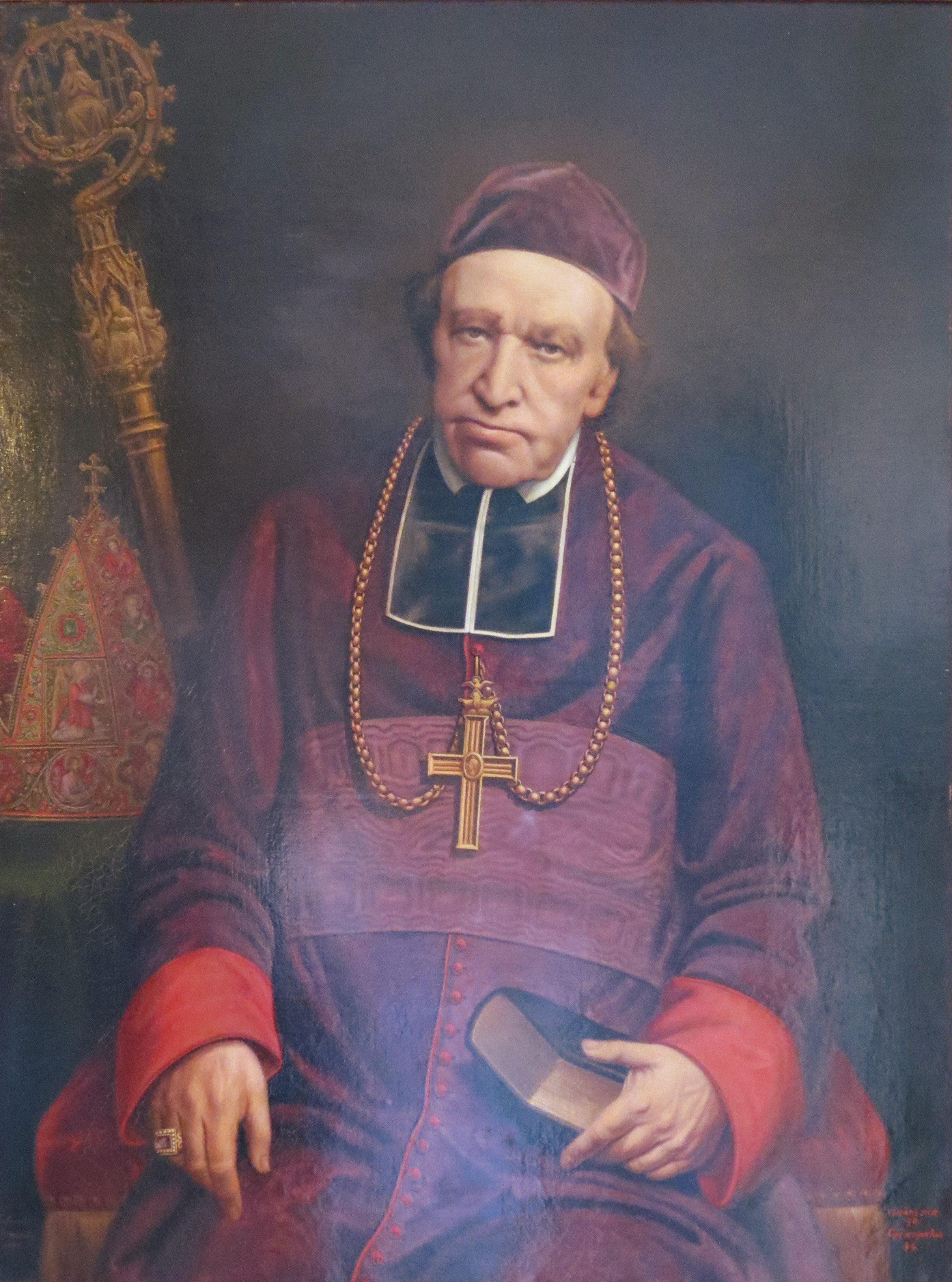 Bishop Joannes Paredis of diocese of Roermond, The Netherlands. Painting in the 'Bishops room' Rolduc Abbey, Kerkrade, The Netherlands